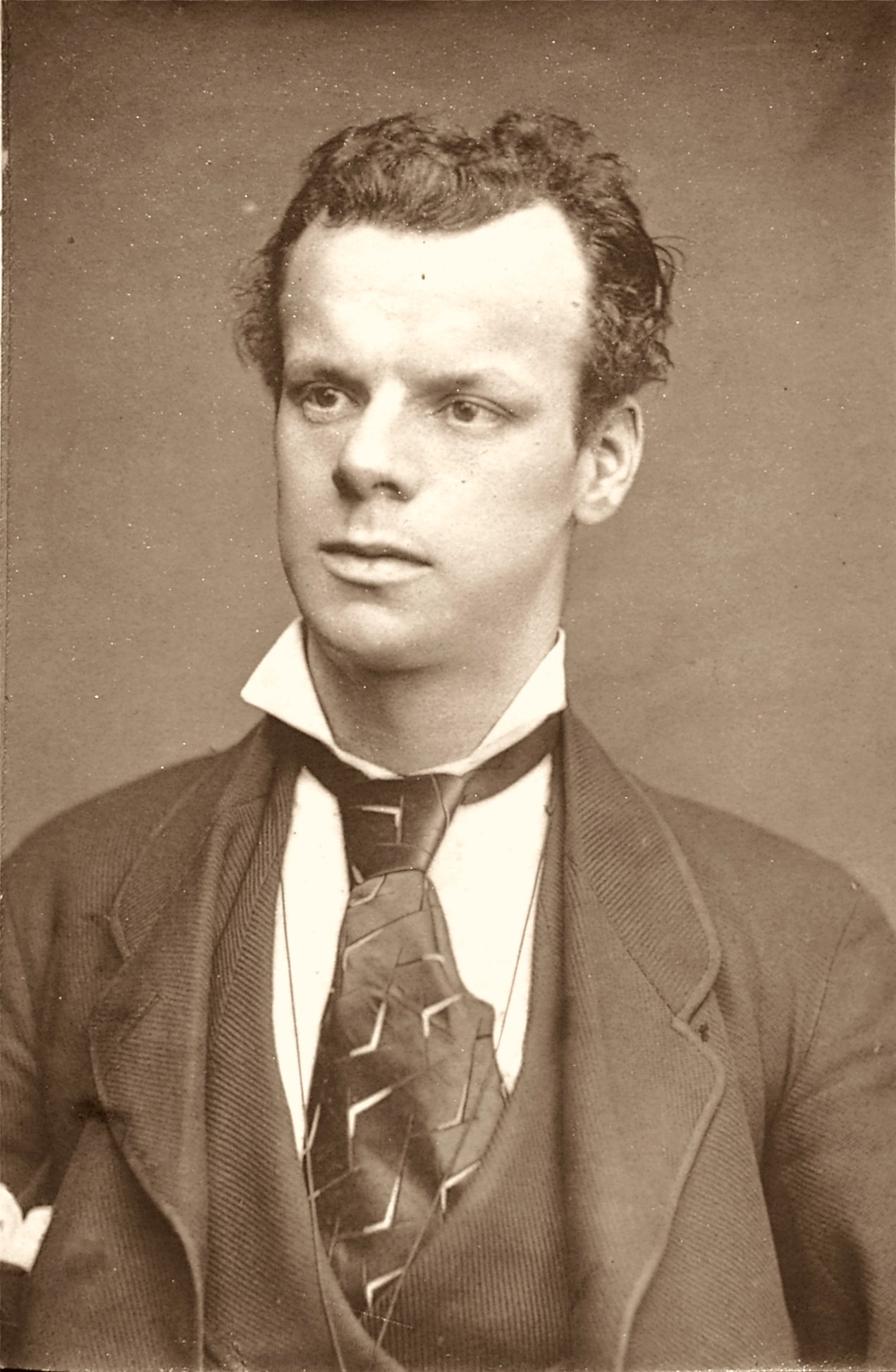 Edward O´Connor Terry 1844-1912, English Actor.